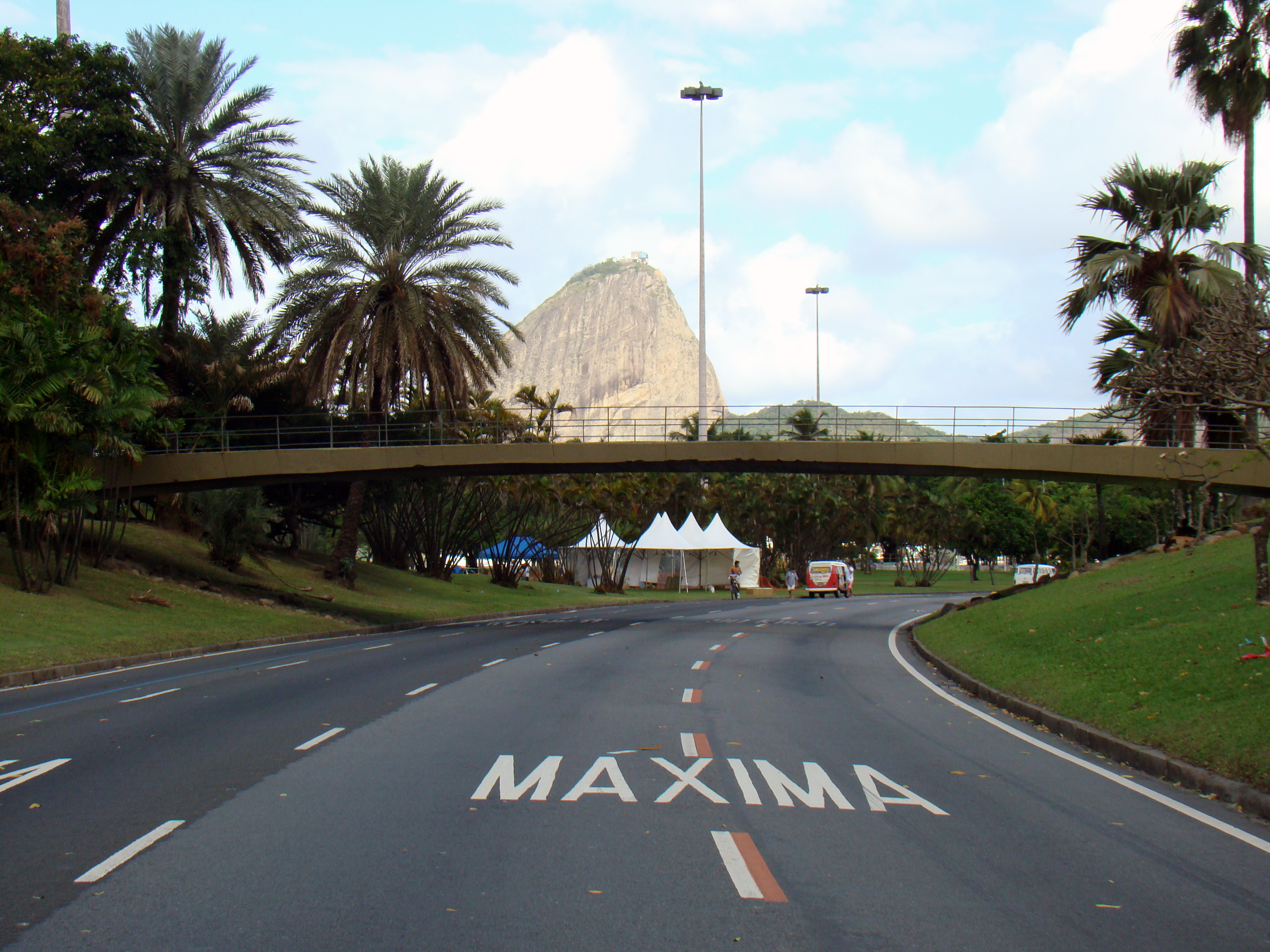 Aterro do Flamengo (on Brigadeiro Eduardo Gomes park), Rio de Janeiro, Brazil